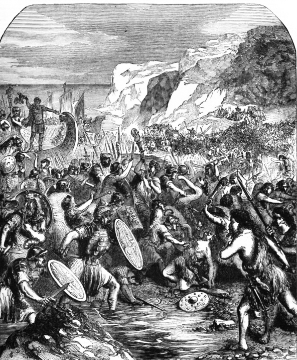 caption reads: Landing of Julius Caesar